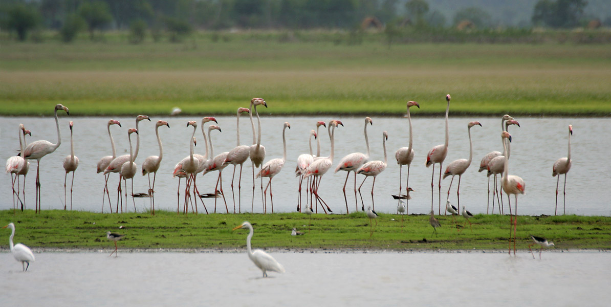 Greater Flamingo Phoenicopterus roseus - Sind: Lakka, Lakke jani, Hindi: Bog/Raaj hans, Sans: Bruhat balak, Bagg, Valiya rajahamsam, Bi: Charaj baggo, Ben: Kanmunthi, Kanthuti, Guj: Balo, Hunj, Moto hanj, Kutch: Hanj pakkhi, Mar: Rohit, Gnipankh, Pandav, Ta: Poonarai, Kizhi mooku naarai, Te: Pu konga, Samudrapu chiluka, Raja hamsa, Mal: Valiya poonara, Sinh: Siyak karaya- at Pocharam lake, Andhra Pradesh, India.